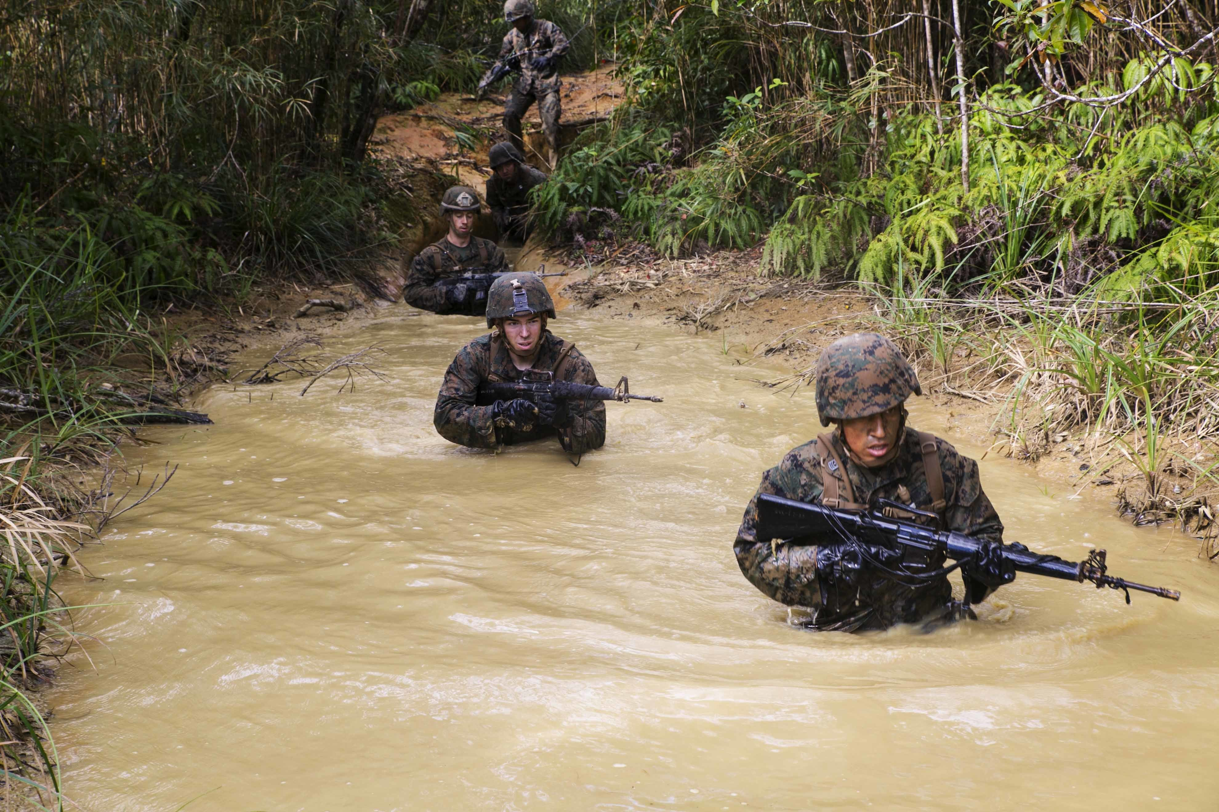 Marines go through the Jungle Warfare Training Center’s endurance course Nov. 25 on Camp Gonsalves. During the course, the Marines had to make their way through pits filled with muddy water and many other obstacles. “The hardest part of the course was the stretcher carry,” said Cpl. Samuel C. Mills from Lawrenceville, Georgia. “Trying to get the stretcher, with the Marine on it, over the hills was miserable.” Mills is a fire support man with 1st Battalion, 1st Marine Regiment, currently assigned to 4th Marine Regiment, 3rd Marine Division, III Marine Expeditionary Force, under the unit deployment program. (U.S. Marine Corps Photo by Cpl. Thor J. Larson/Released)